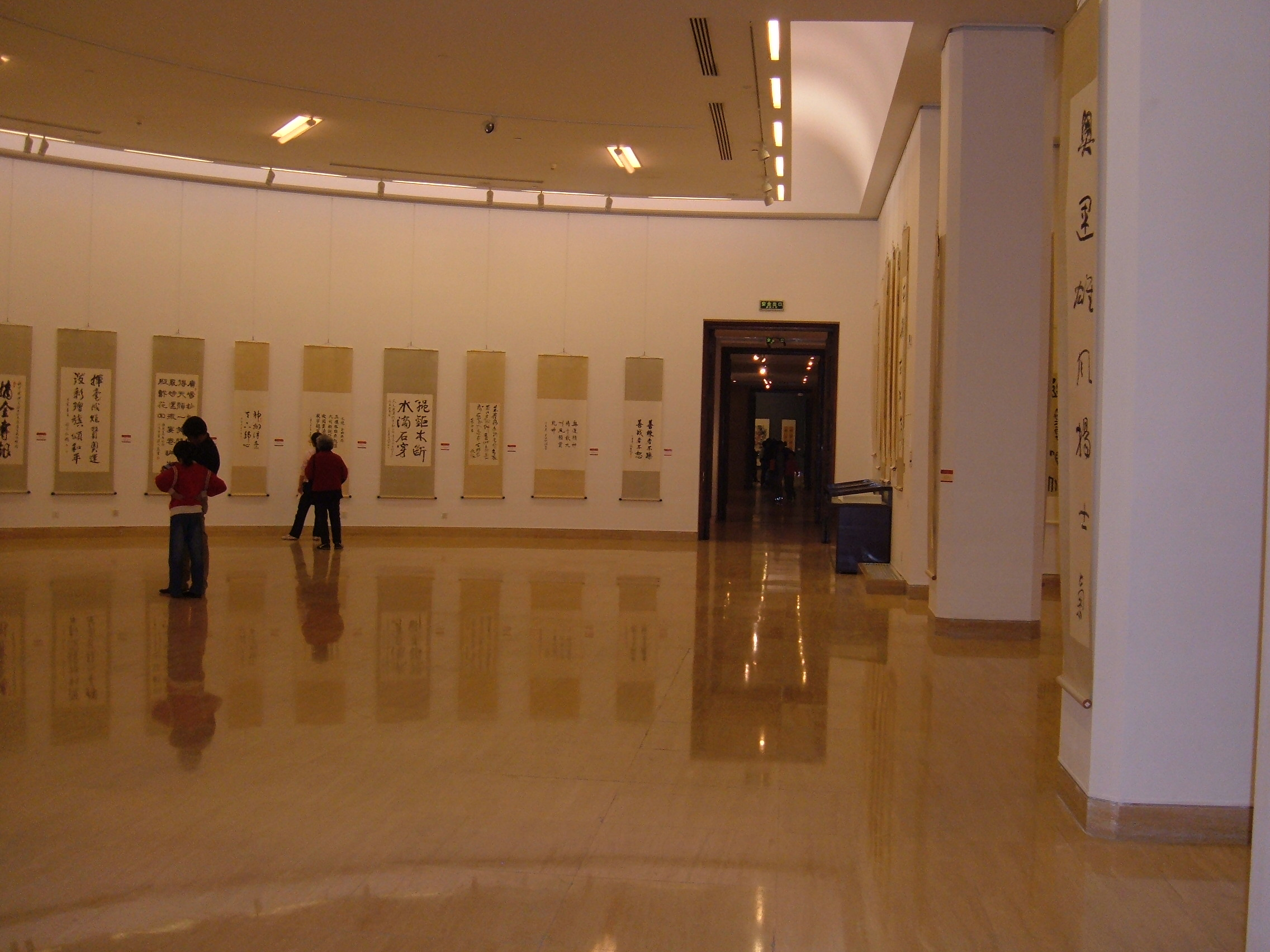 Semicircular gallery of the National Art Museum of China in Beijing, PRC. At the time this photo was taken a national calligraphic exhibit was running.